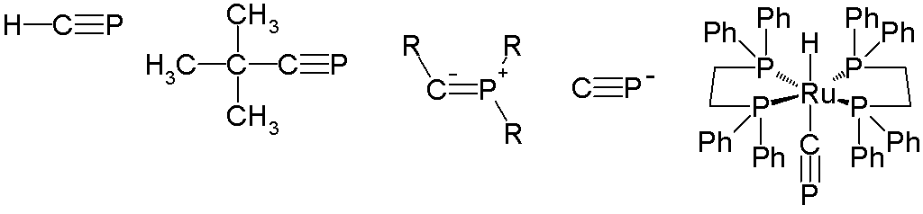 Phosphaalkynes